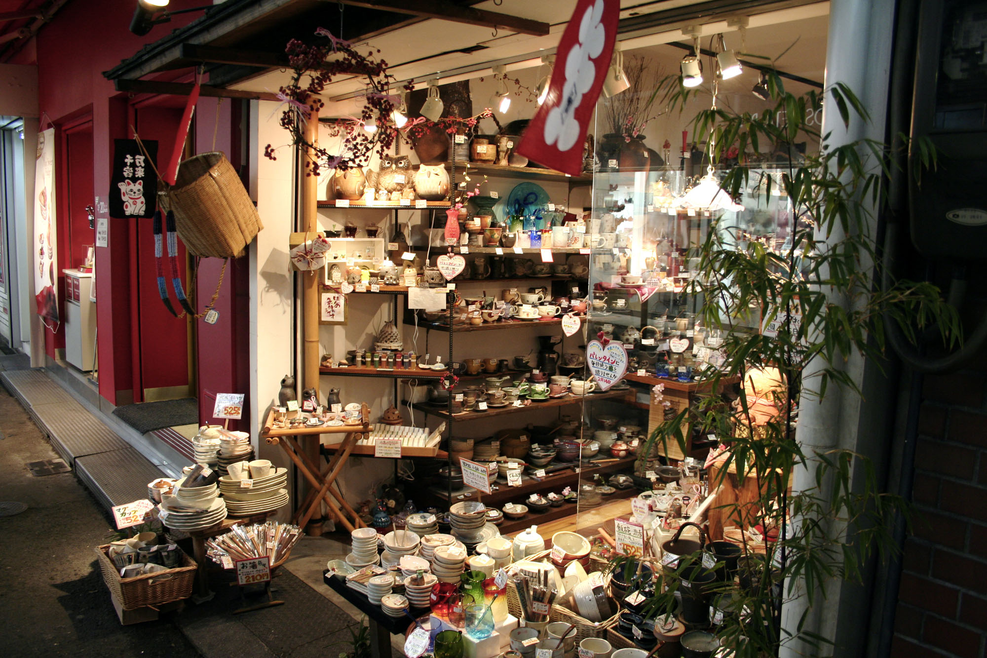 Taken in Shinsaibashi, Osaka